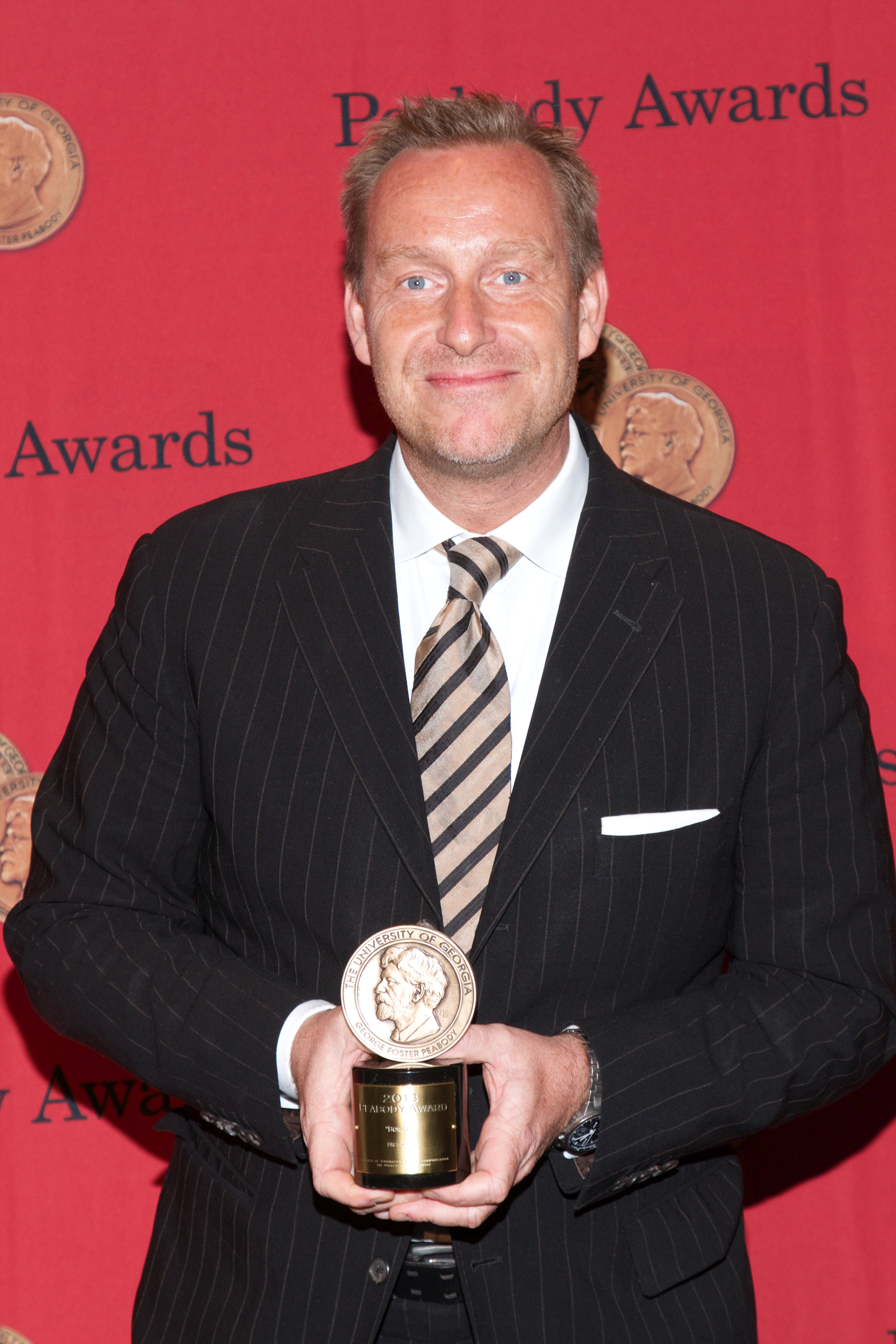 Adam Price with a Peabody Award for the television show "Borgen"